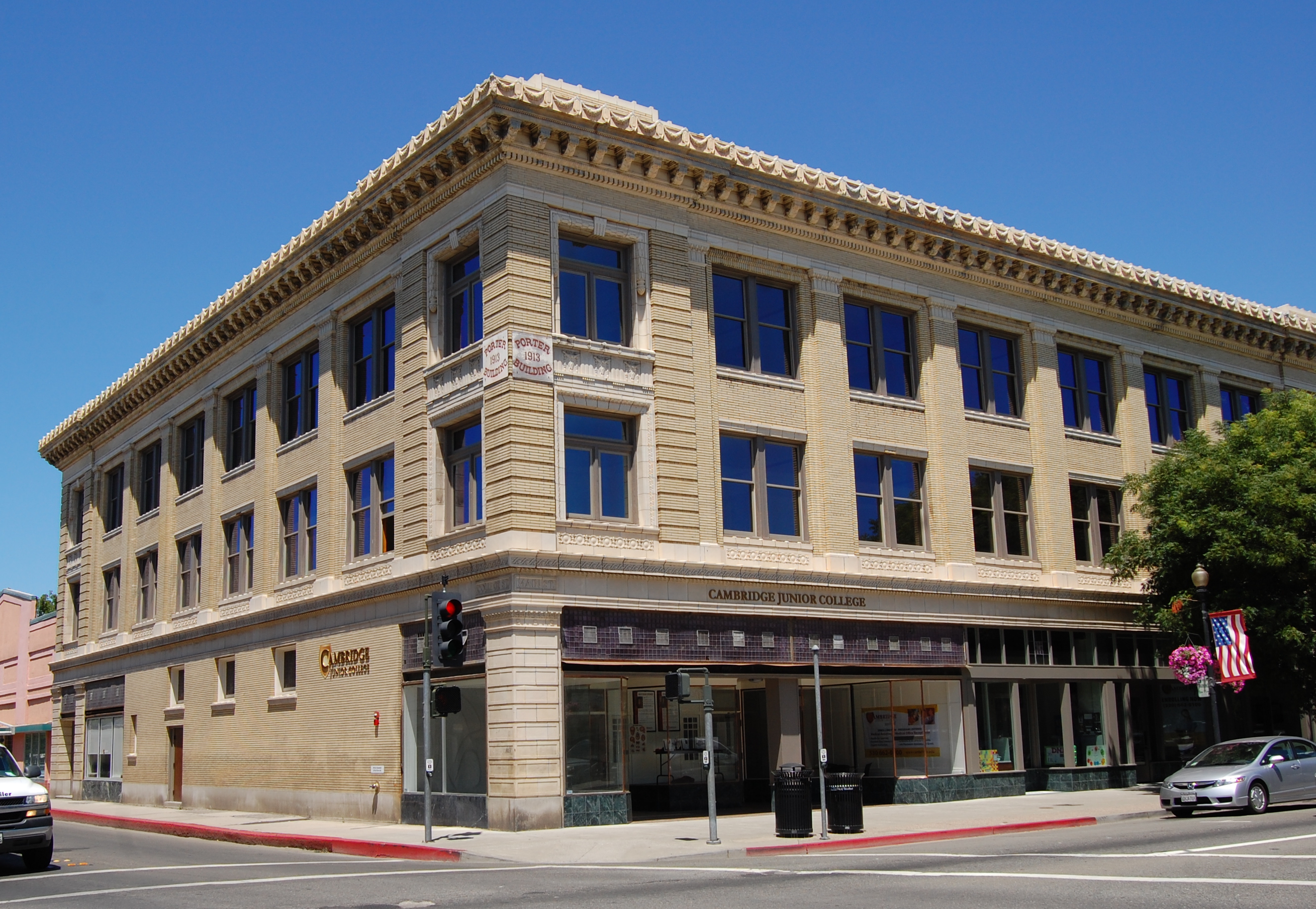 The Porter Building in Woodland, California. This building is listed on the National Register of Historic Places.